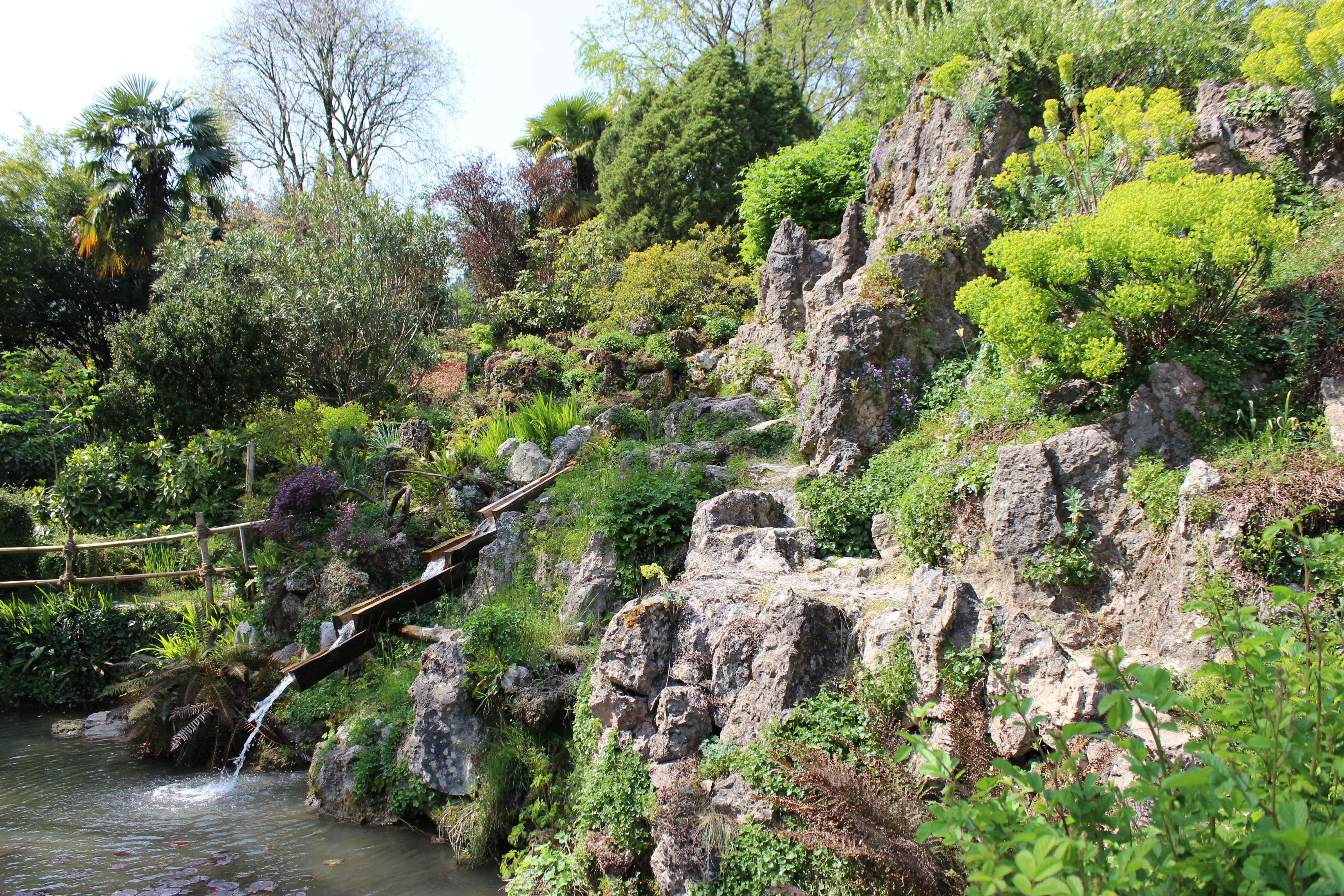 Gardone: Giardino Botanico